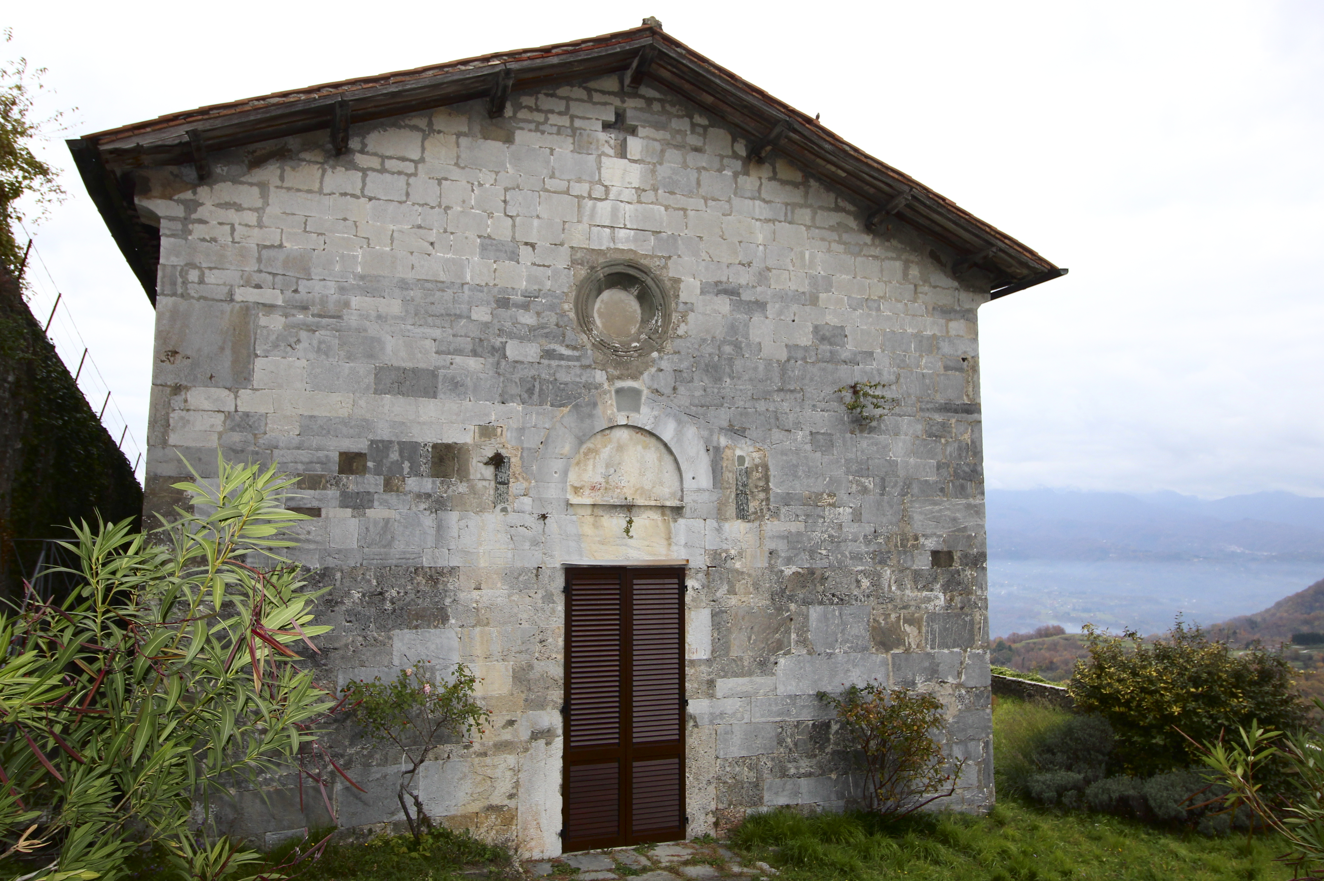 Church Santi Pietro e Paolo, Trassilico, hamlet of Gallicano, Garfagnana, Province of Lucca, Tuscany, Italy